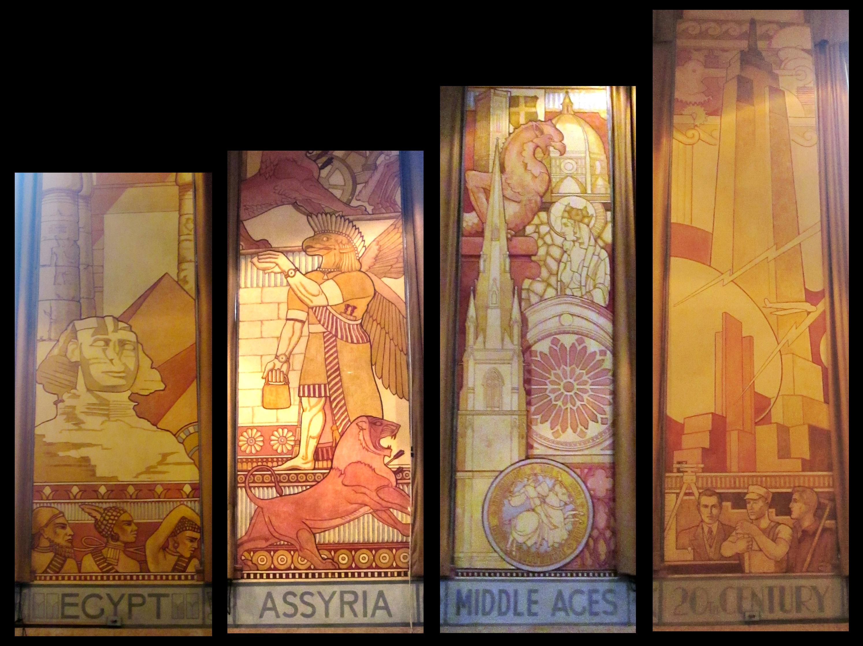 Murals by Geoffrey Norman on the sides of the auditorium of the Bayard Rustin Educational Complex (BREC), Manhattan, New York City, created in 1934–35 under the auspices of the the Work Projects Administration's Federal Arts Project.